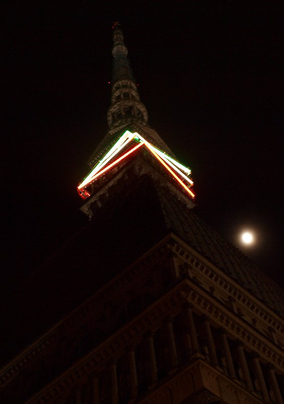 Mole Antonelliana, Turin: special lighting for the 150th Anniversary of Italian Unification